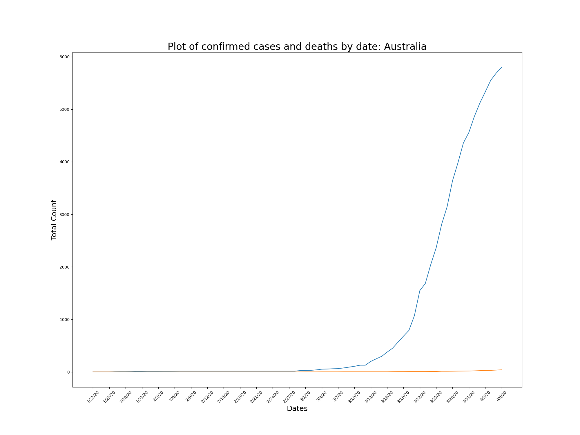 COVID 19 confirmed vs death Cases in Australia